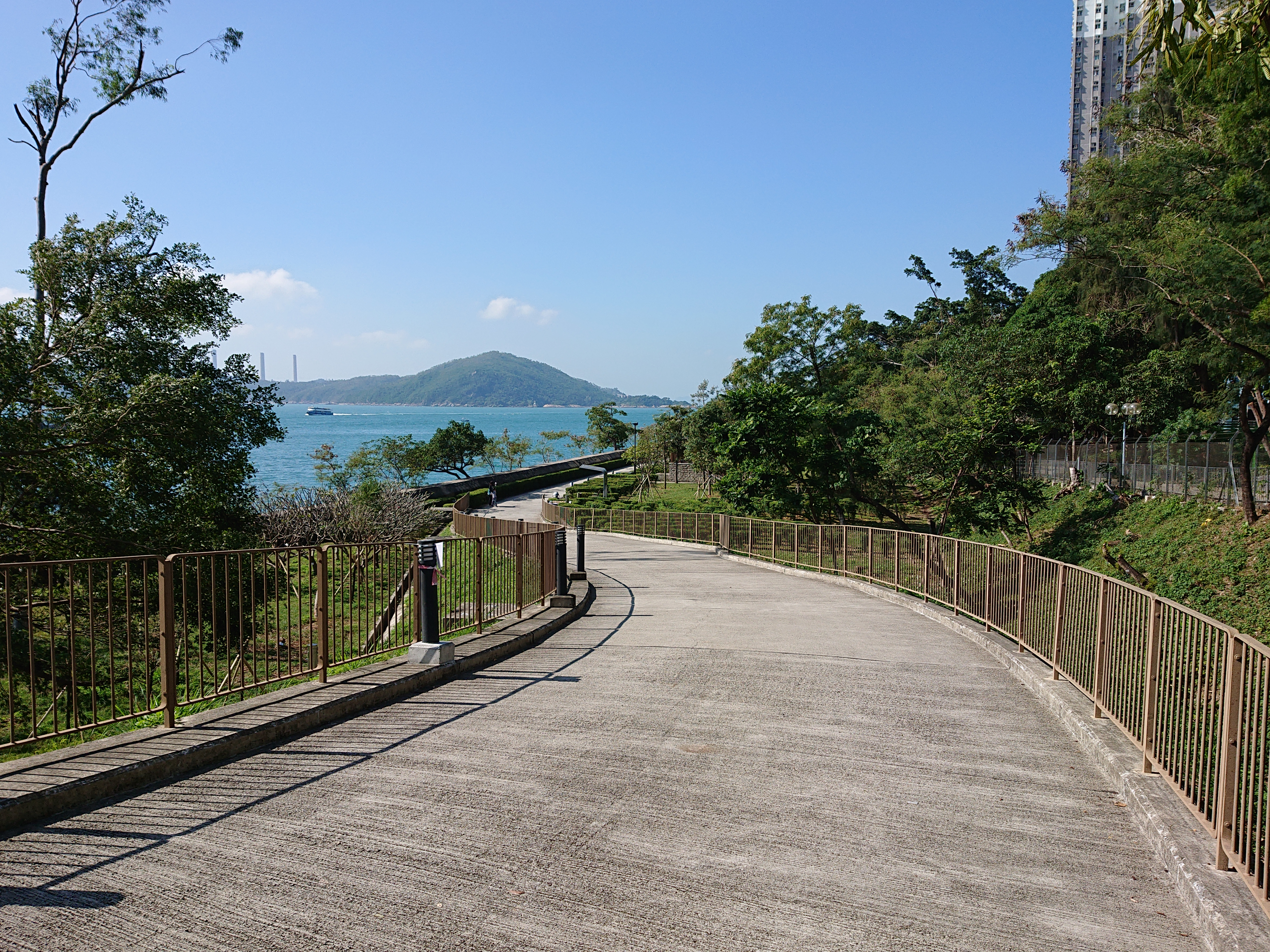 Kellett Bay Waterfront